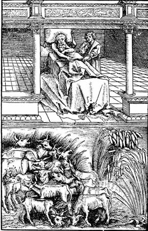 Pharaon's dream about cows. (Allegory? file was named LUTHER DAS ALTE TESTAMENT DEUTSCH THE PARA)